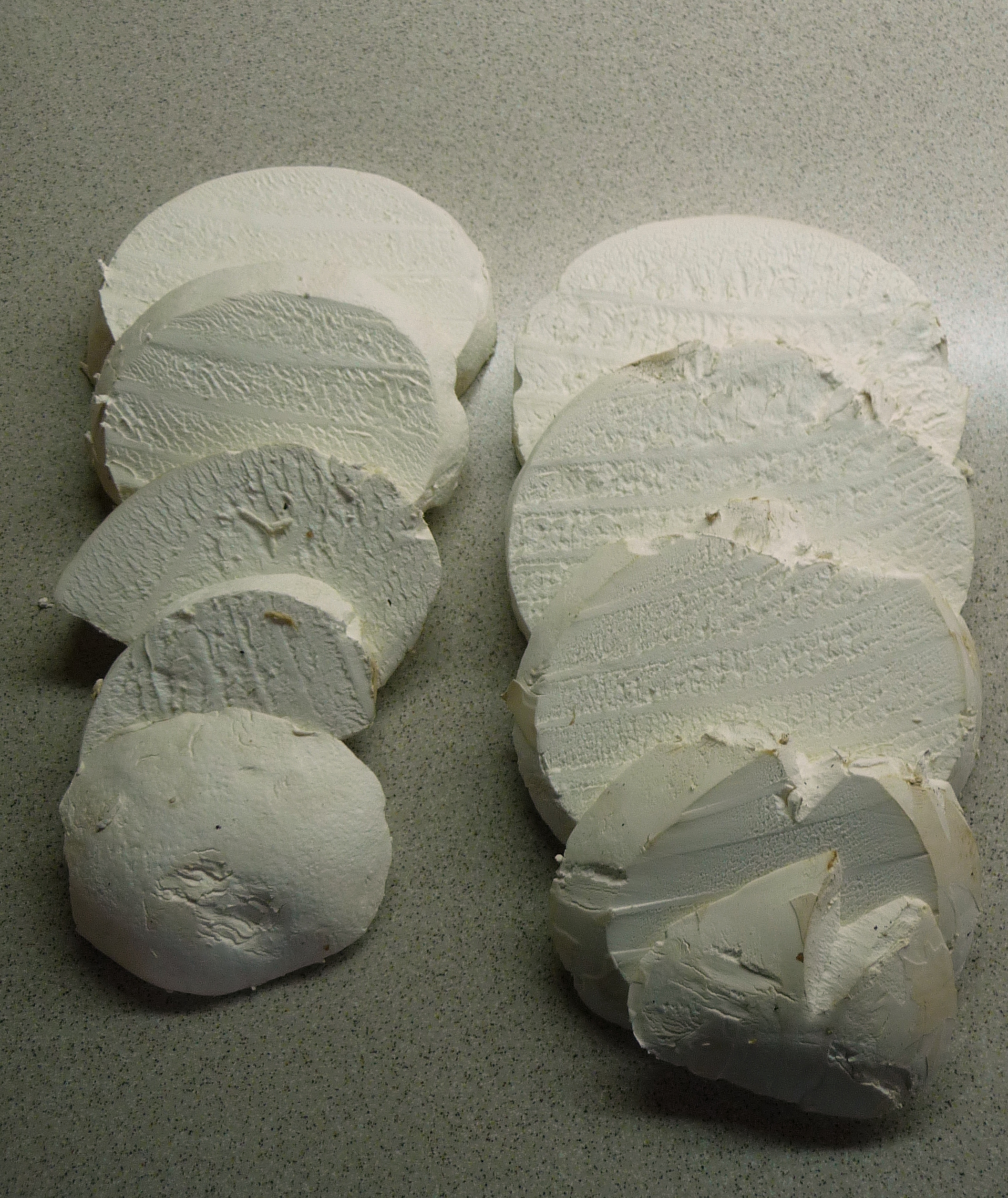 Sliced Langermannia gigantea